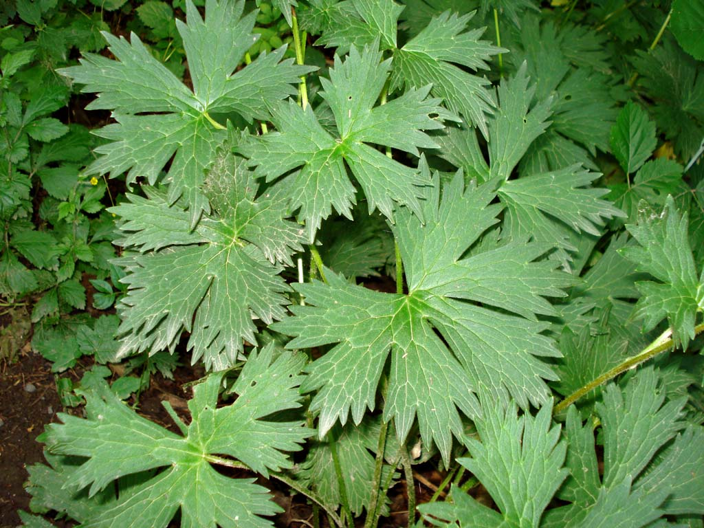 Aconitum lycoctonum subsp. lycoctonum (Unterfranken, Germany)